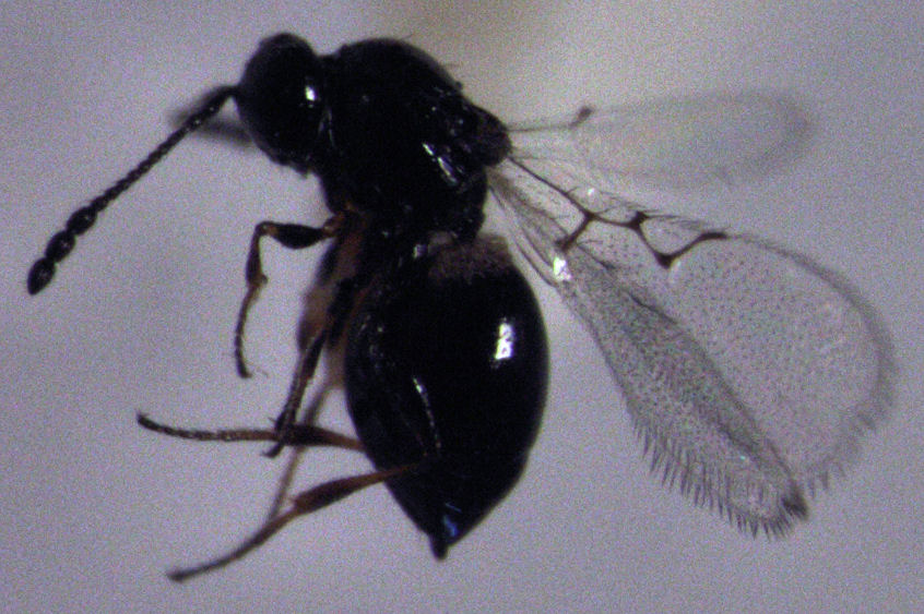 Kleidotoma sp. (female, length about 1.3 mm)